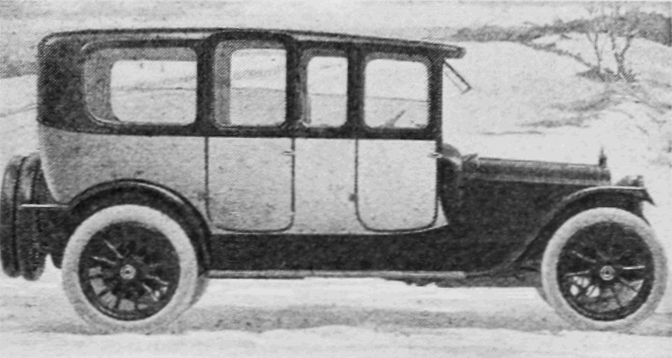 Packard Twin Six V-12 two-toned Imperial Limousine; an Automobile critiqued for its styling in the 1910s 2